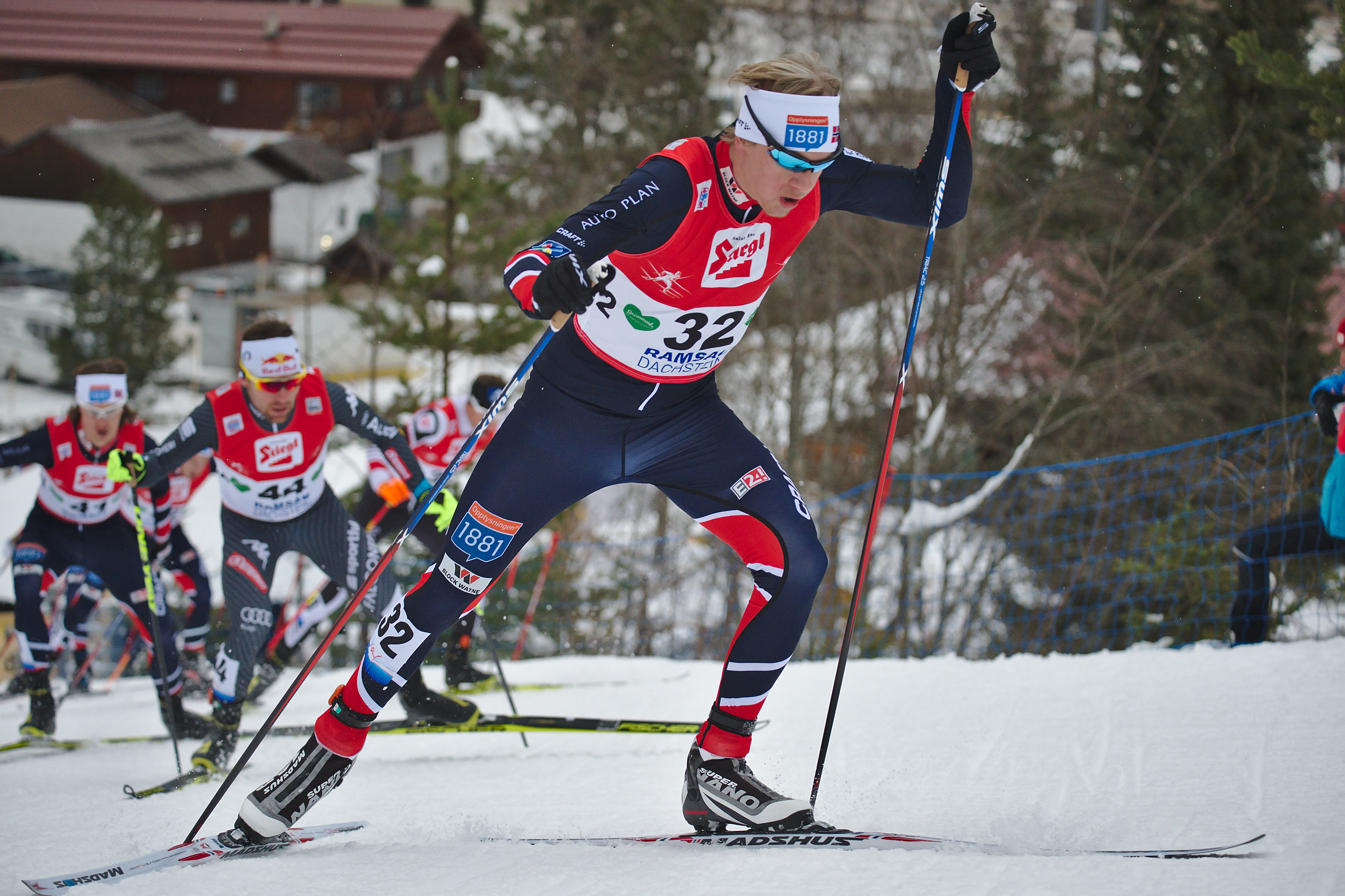 Magnus Krog (NOR)